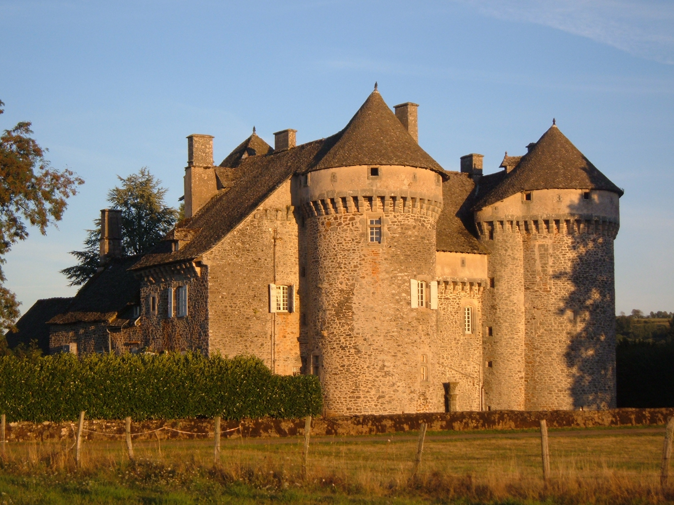 Chateau de La Vigne, Auvergne, France